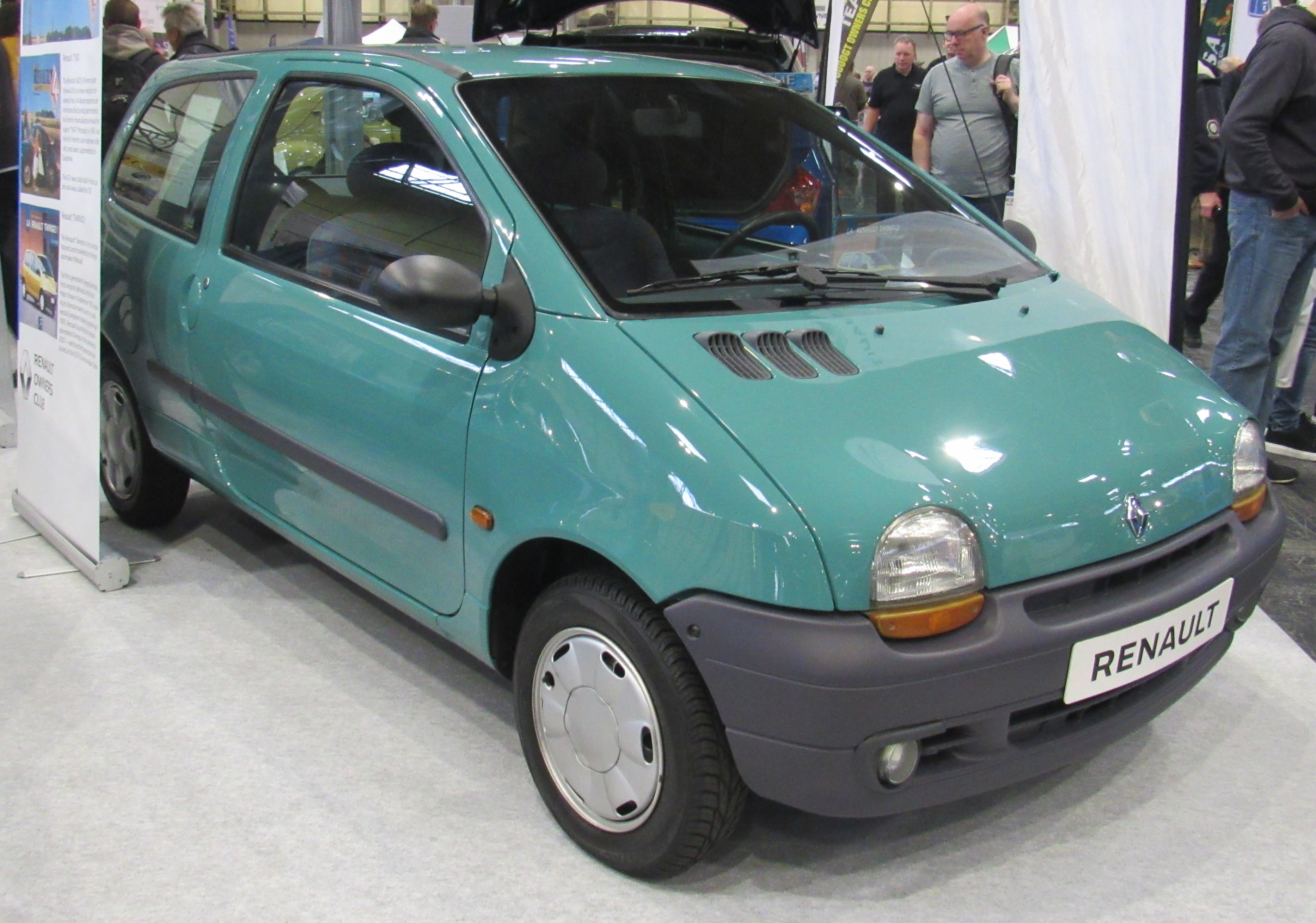 1994 Renault Twingo 1.3 Taken at the NEC Classic Motor Show 2017